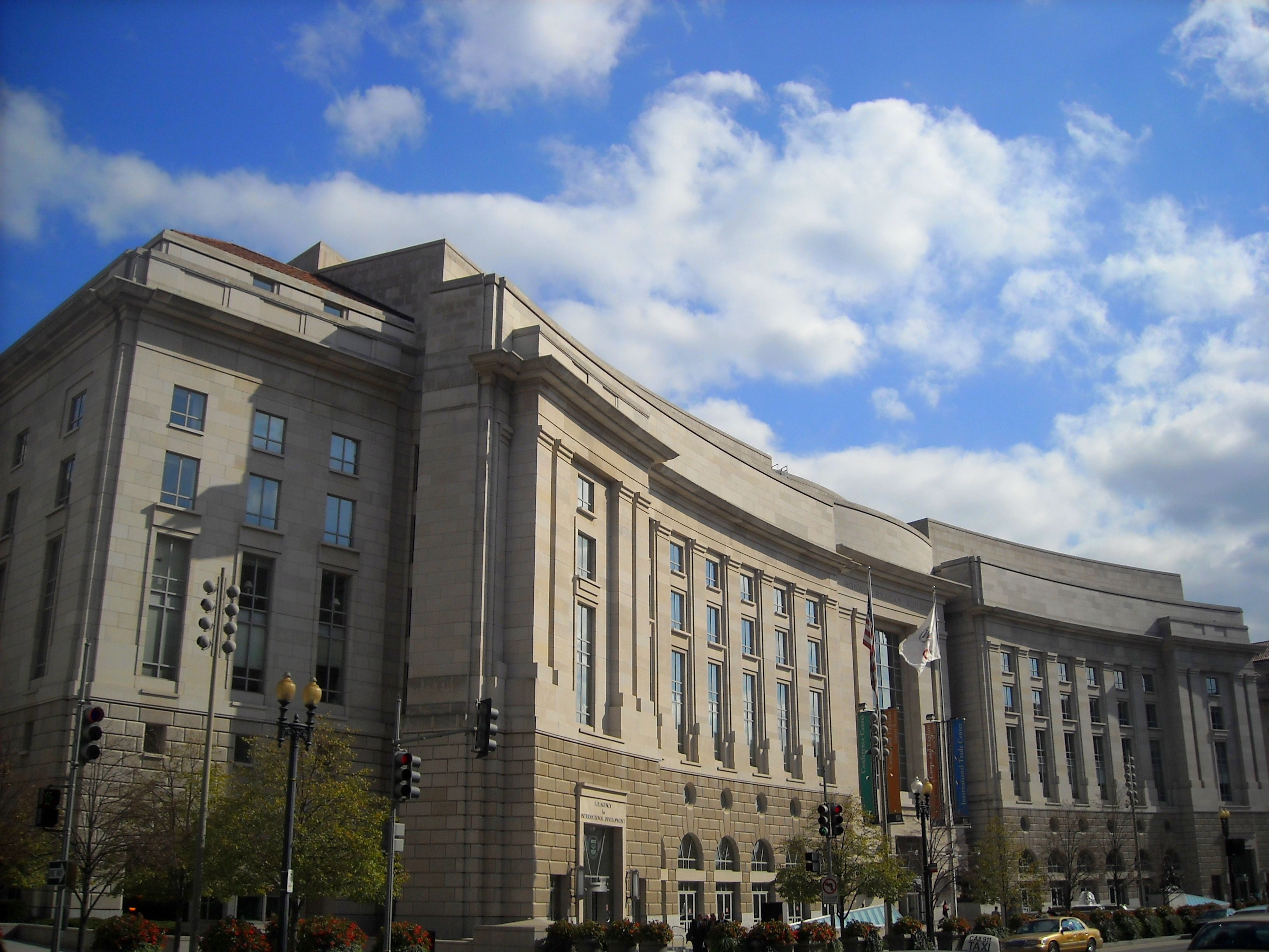 Fourteenth Street, NW side of the Ronald Reagan Building and International Trade Center in the Federal Triangle area of Washington, D.C.